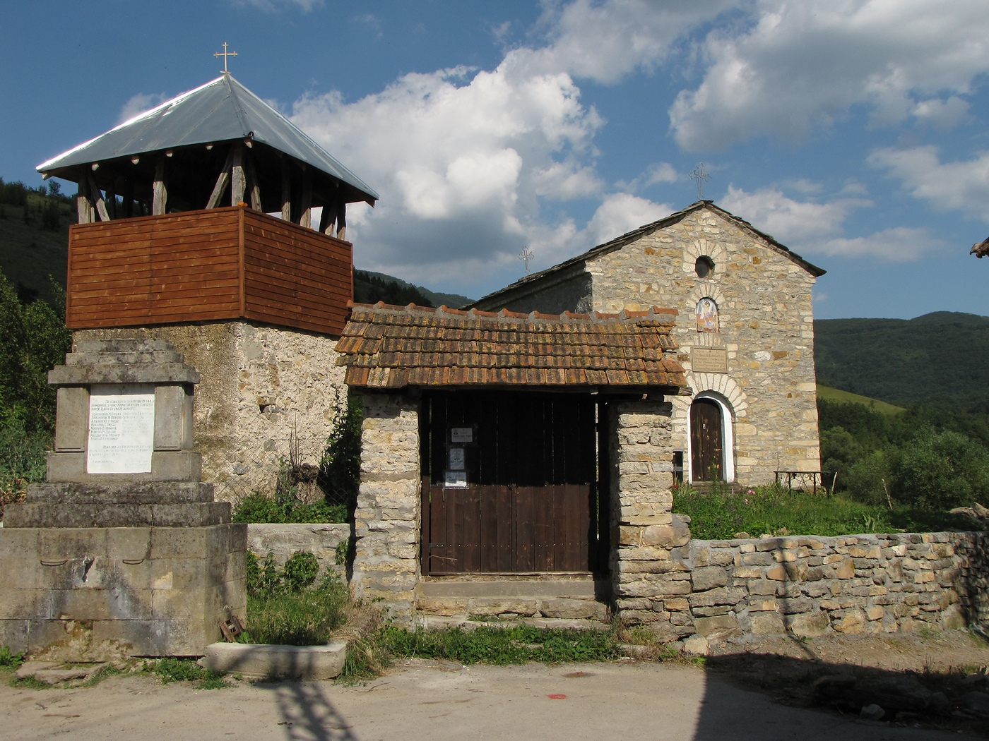 Church in village Pakleštica